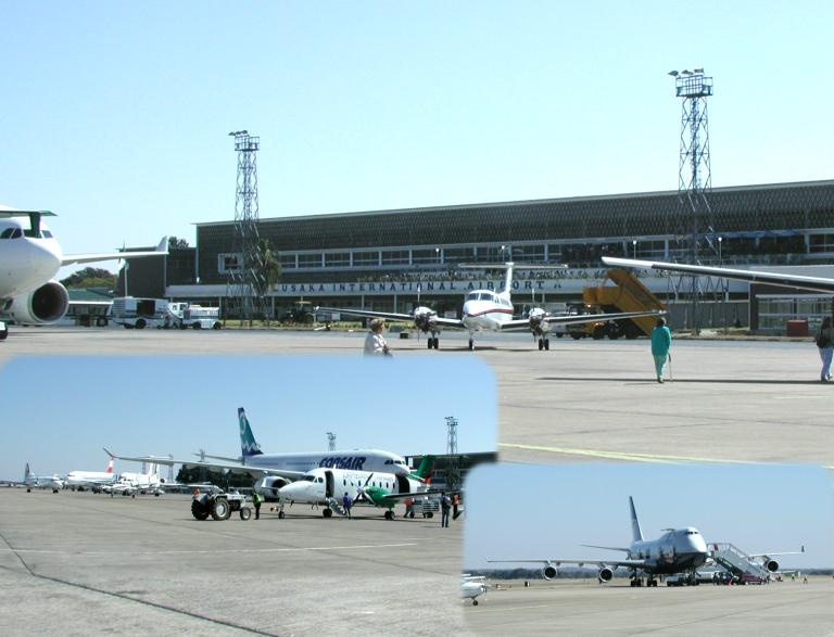 Photo of Lusaka International Airport in 2001.